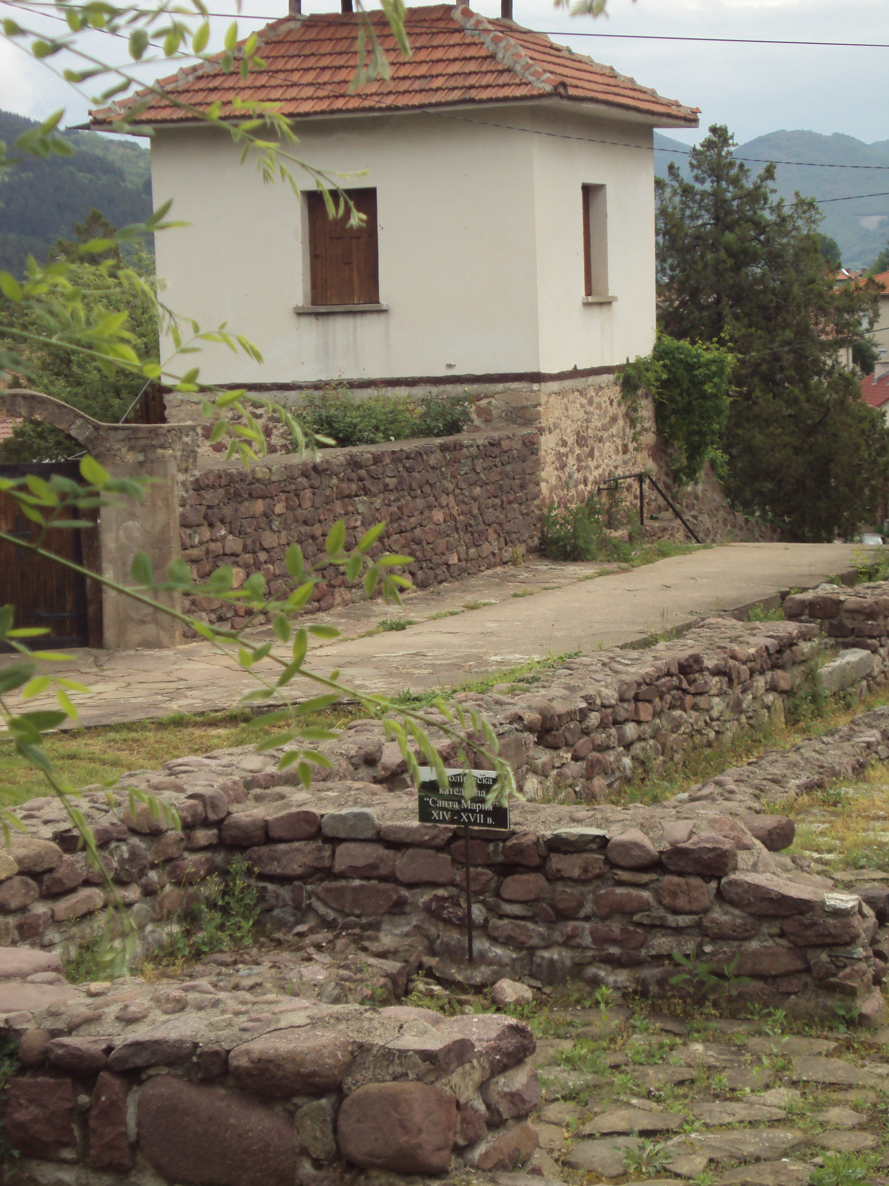 Chiprovtsi